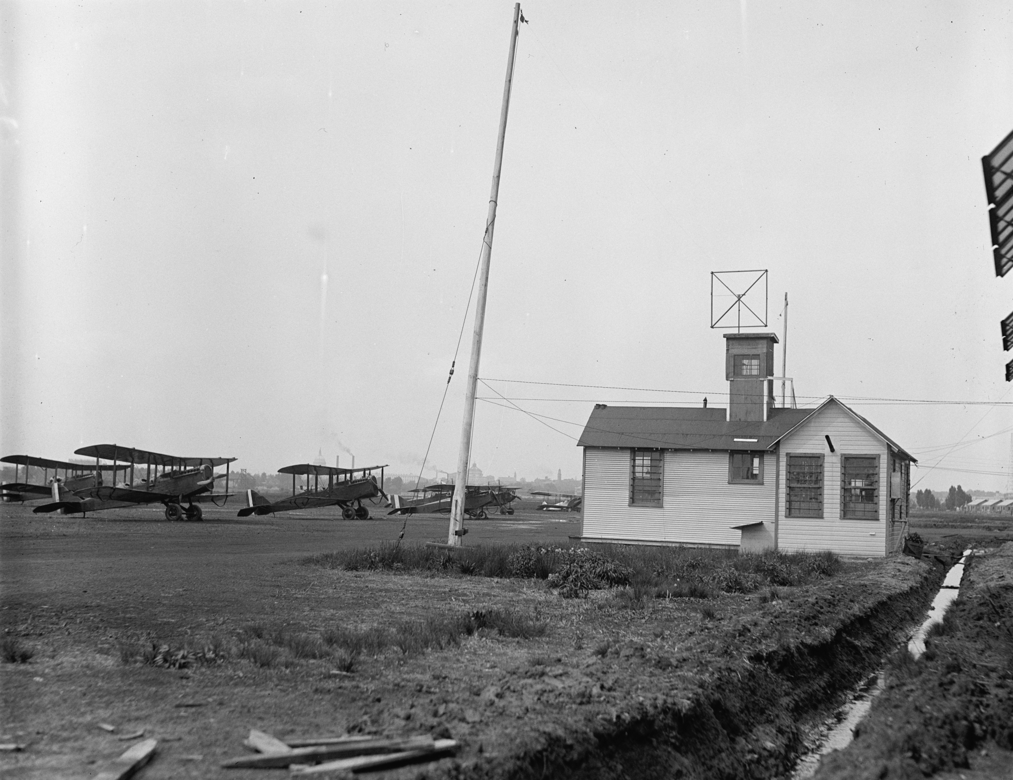 Biplanes sit on a sod apron at Hoover Field, an airport in Arlington County, Virginia, which served the city of Washington, D.C., in the United States. The dome of the U.S. Capitol building can just be seen over the plane in the middle. Smokestacks and other tall building, safety hazards for which the airport was notorious, line the horizon.